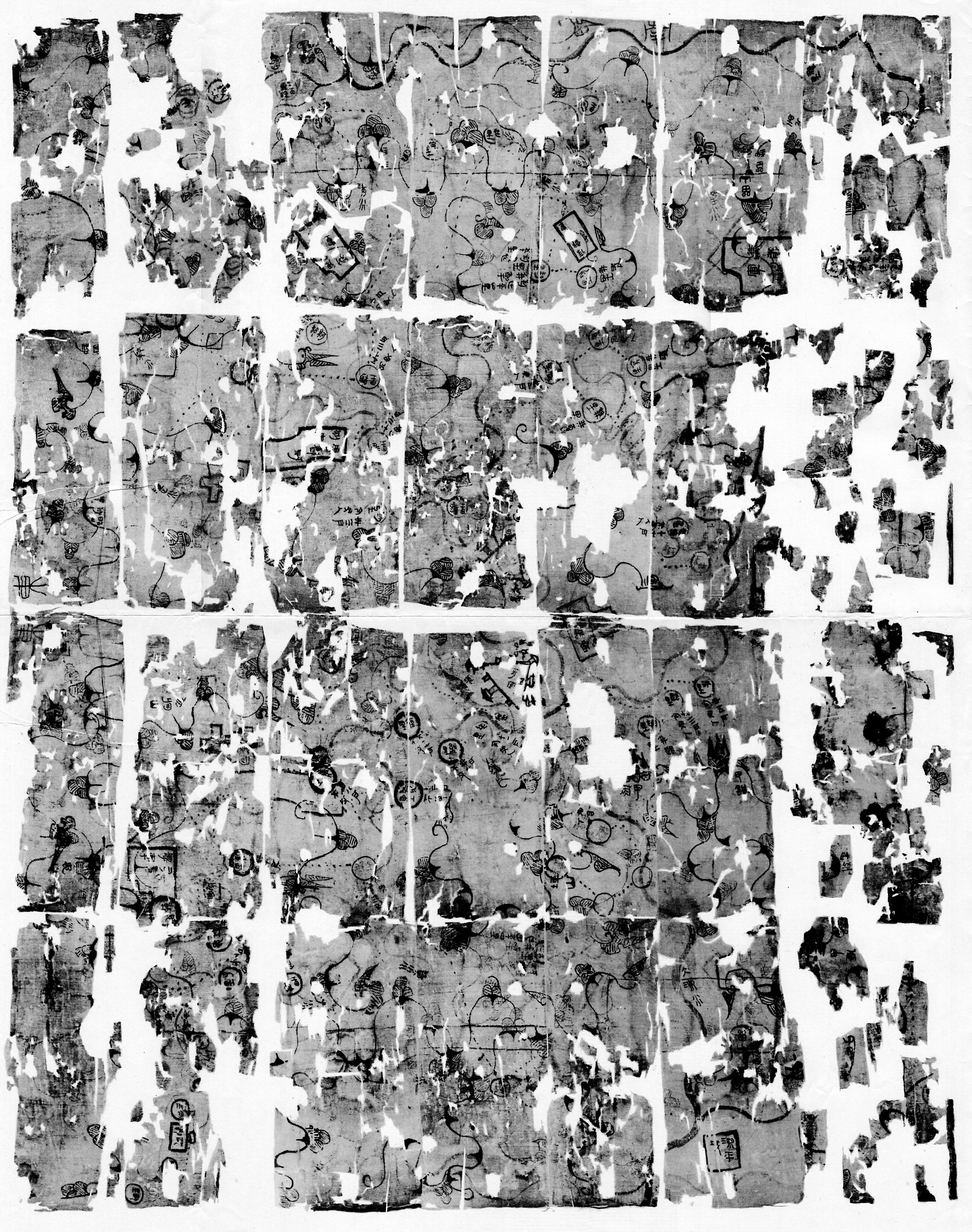 Silk map showing military features in an area corresponding to most of the top left quarter of the Mawangdui Topographic Map. It marks the positions of Han military garrisons that were employed in an attack against Nanyue in 181 BC.[1] Found in 1973 in Tomb 3 of the Mawangdui Western Han tomb complex. Datable to circa 168 BC. Map was folded five times into 28 sections which later disintegrated along the folds into twenty-eight sheets. Dimensions: 98 × 78 cm. Scale: approximately 1:9,000. Oriented with south to the top.